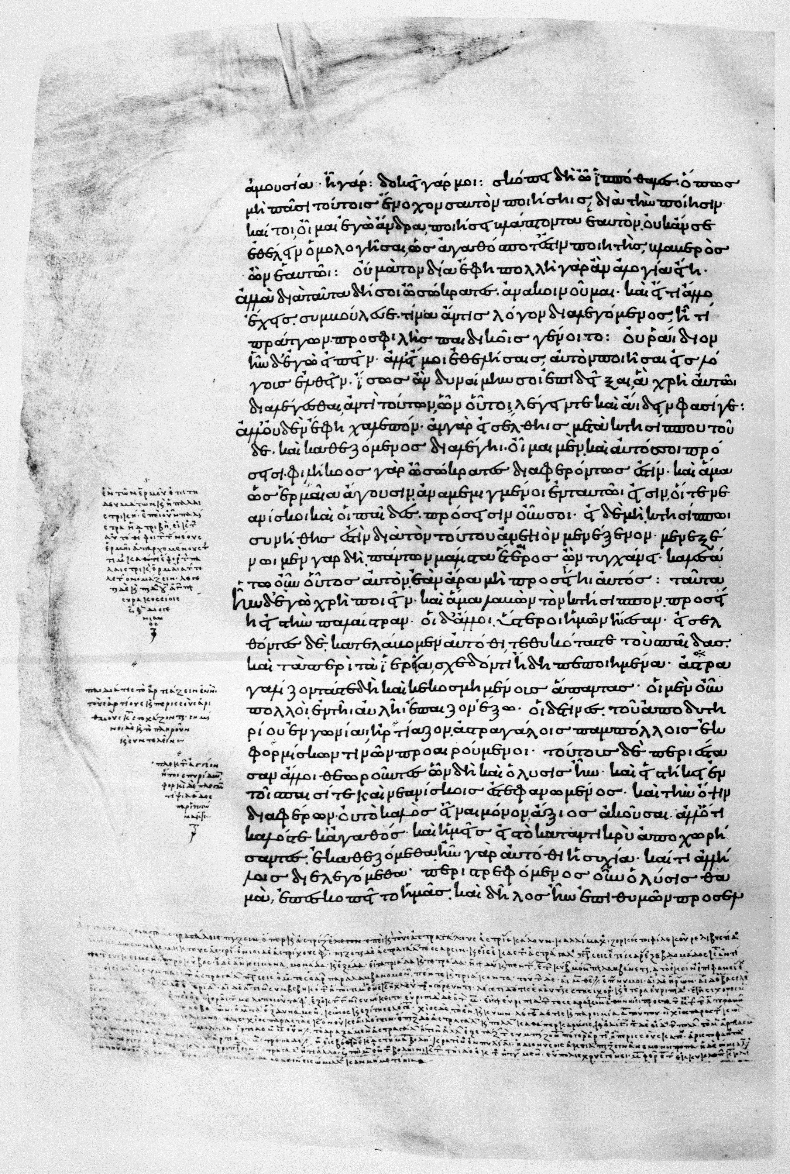 Page of the Codex Oxoniensis Clarkianus 39 (Clarke Plato). Dialogue Lysis.